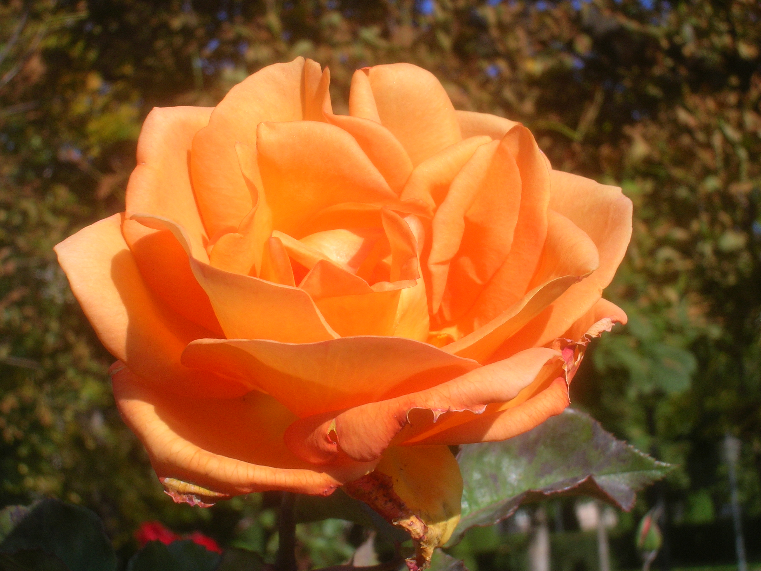 Rosa 'Doris Tysterman' in the Volksgarten in Vienna. Identified by sign.